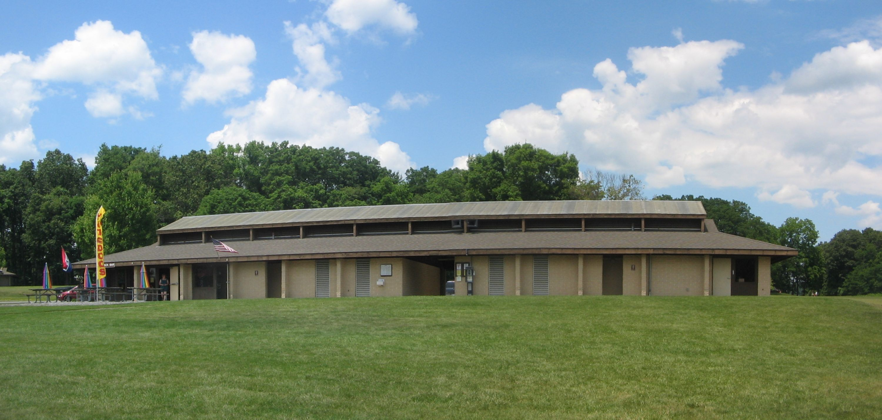 Beach house at Bald Eagle State Park in Howard Township, Centre County, Pennsylvania, USA.